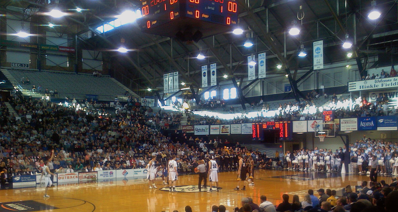 The basketball court at Hinkle Fieldhouse just prior to tipoff during a game between the Butler Bulldogs and the University of Wisconsin Green Bay basketball teams.